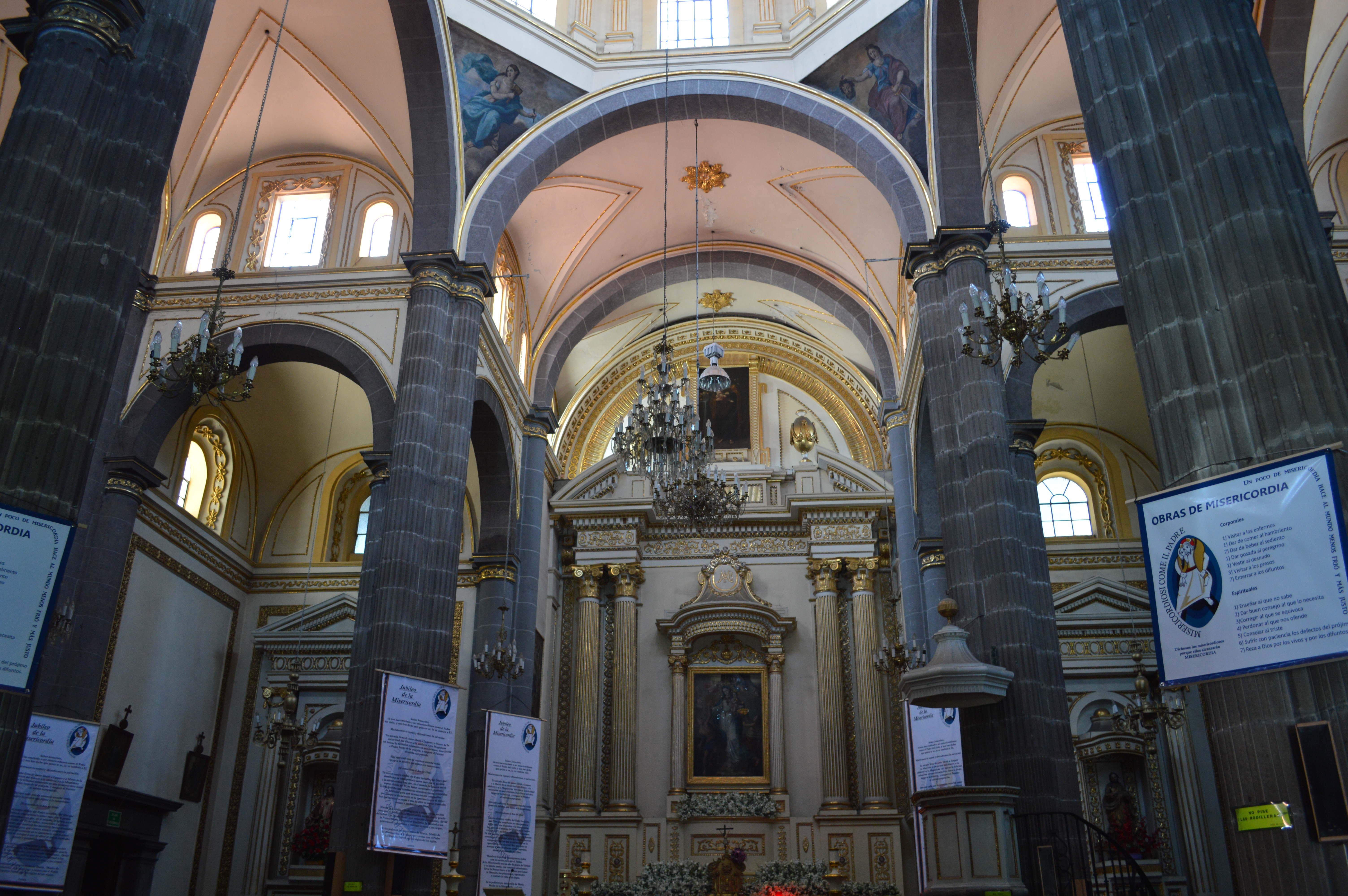 Inside the Nuestra Señora de la Luz Church in Barrio de la Luz in Puebla, Mexico